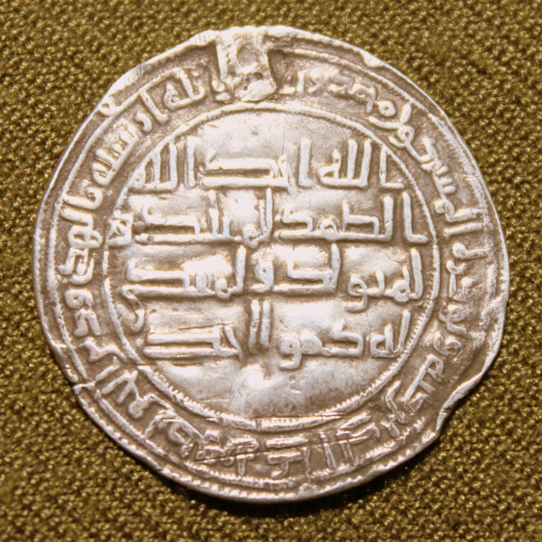 Ummayad caliphate, silver dirham, al-Bab mint (near Derbent), year 123AH (= 740/1 CE).